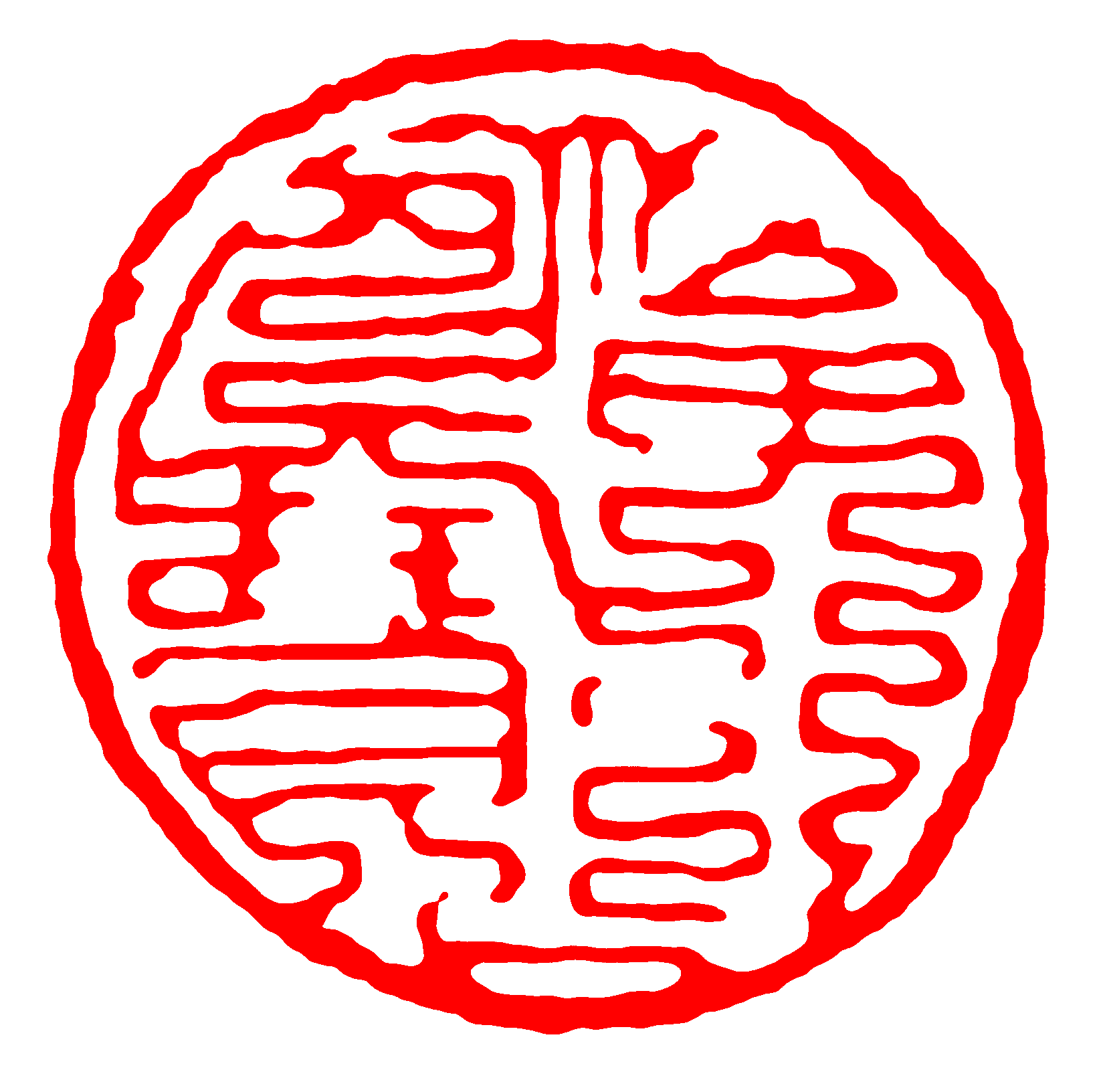 Seal of Goryeo